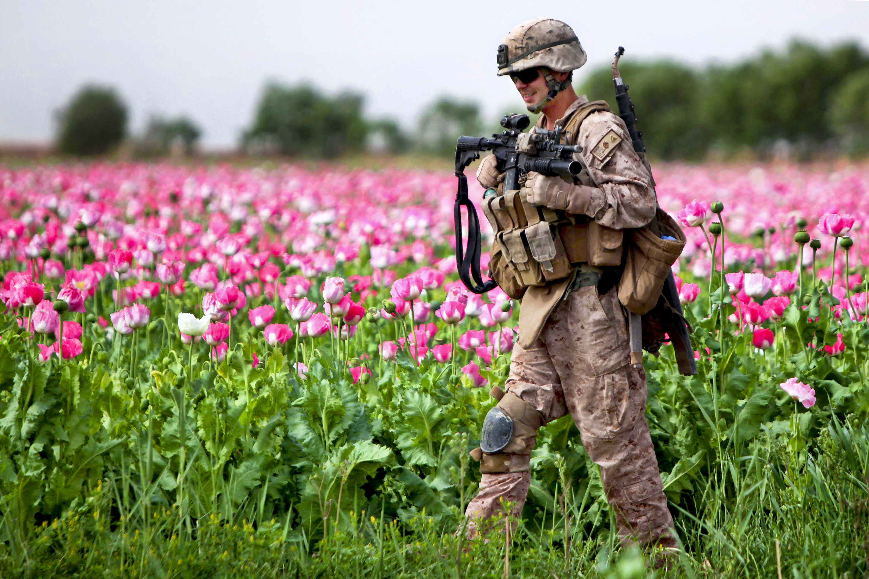 U.S. Marine Corps Cpl. Mark Hickok patrols through a field during a clearing mission in Marja in Afghanistan's Helmand province on April 9, 2011. Hickok, a combat engineer, is assigned to the 1st Combat Engineer Battalion.